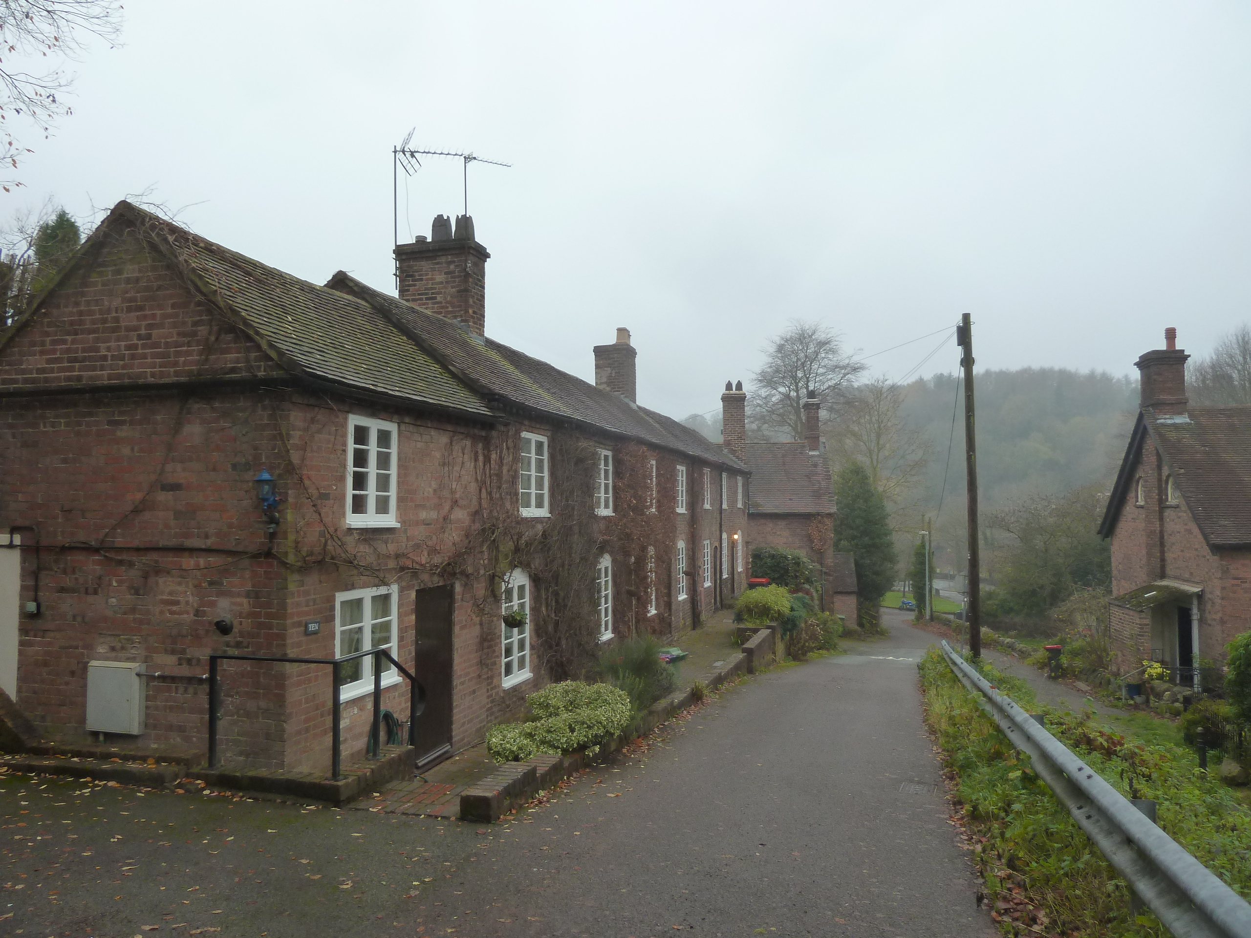 Engine Row (left) and Resolution Cottage (beyond)[1], approximate site of the Resolution beam engine, used as a water-returning engine for the Coalbrookdale ironworks.